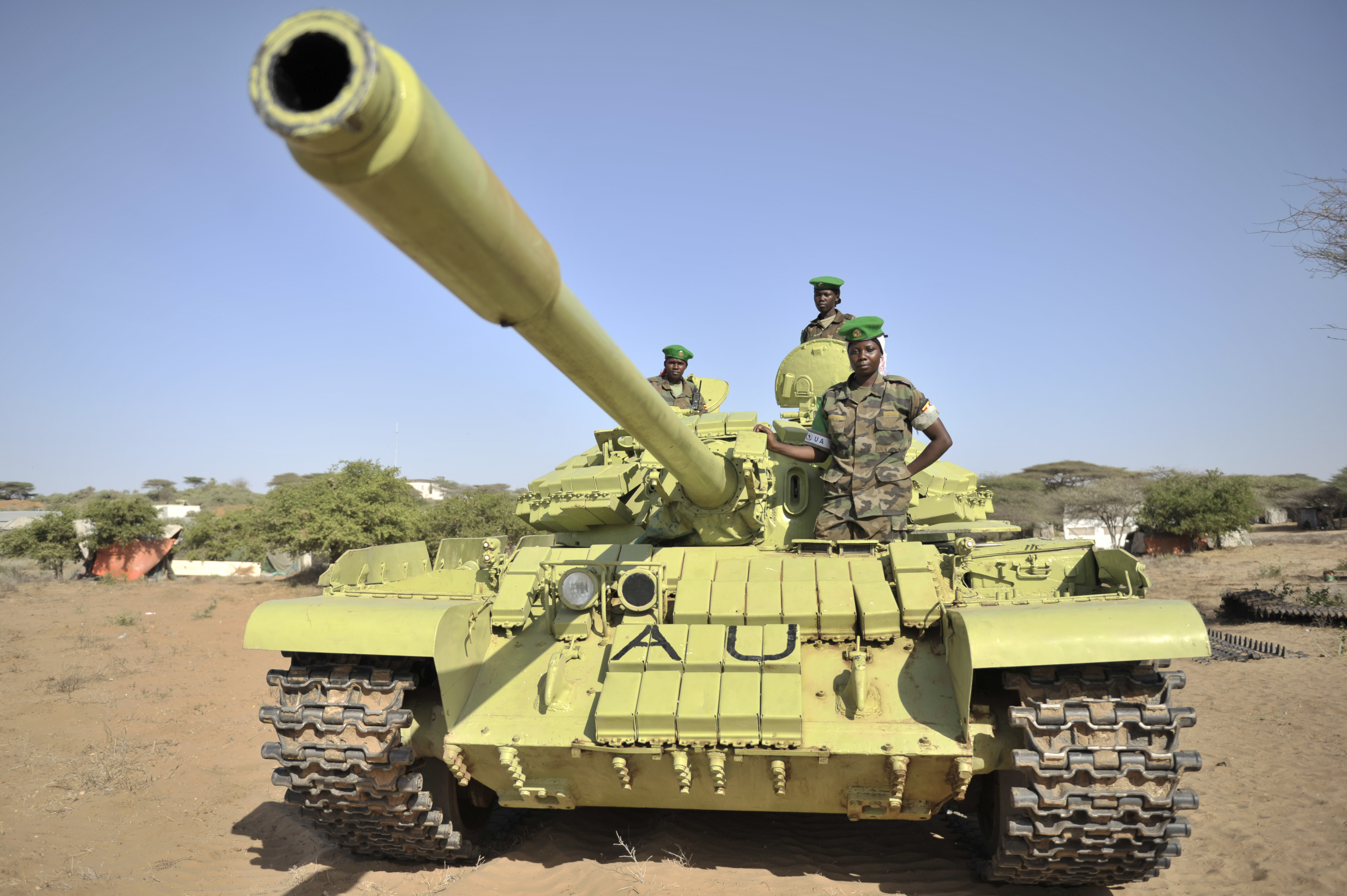 Tank driver, Lance Corporal Mudondo Zabina, tank commander, Corporal Kyomuhendo Ballet and tank gunner Lance Corporal Otuga Maureen of the Uganda Peoples Defence Forces on their tank. The ladies are part of the Armoured Brigade or Tank Crew as they are commonly refered to. There are 189 soldiers that comprises of six vetrans and six women. AU/UN IST PHOTO / David Mutua